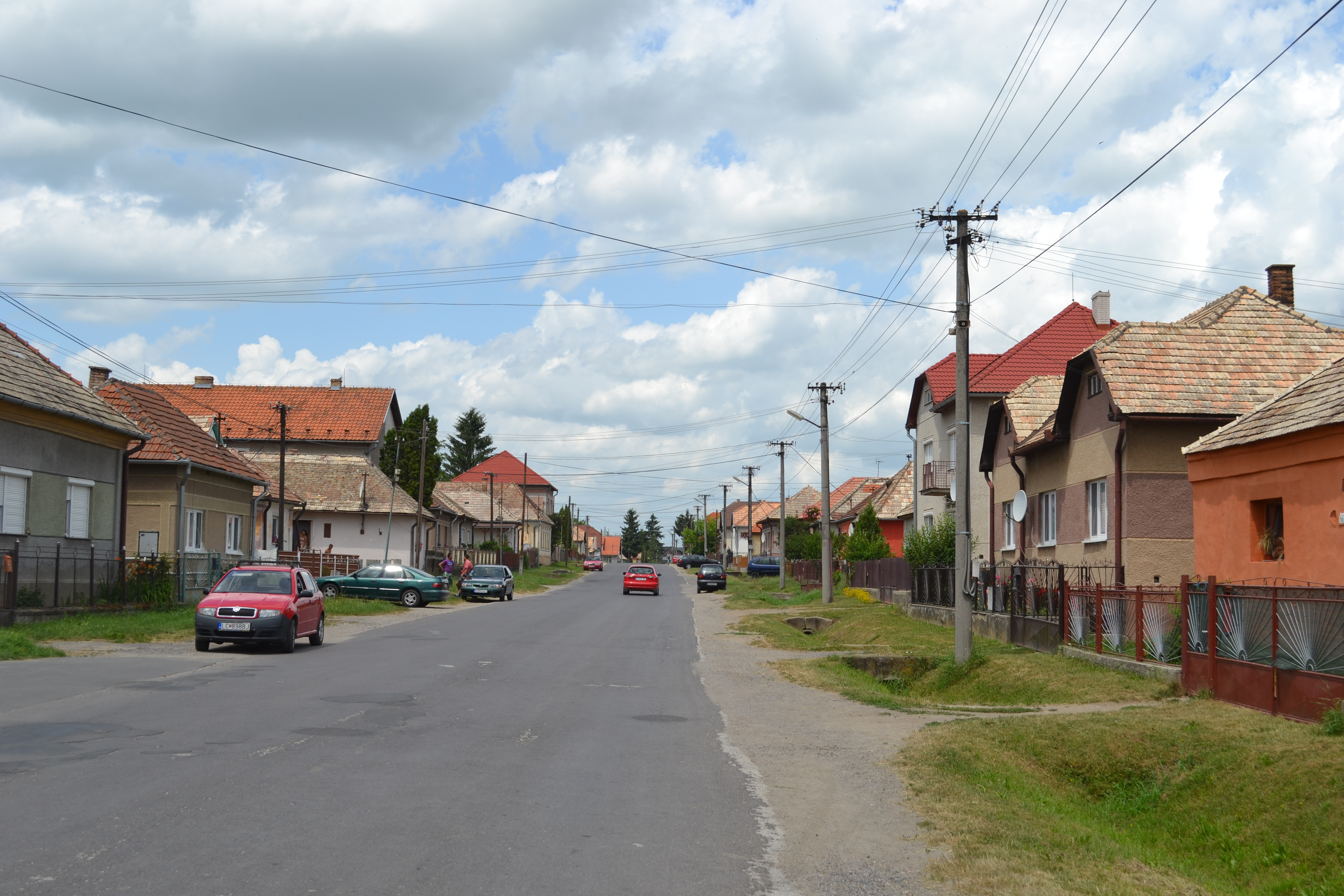 Street of the village Širkovce